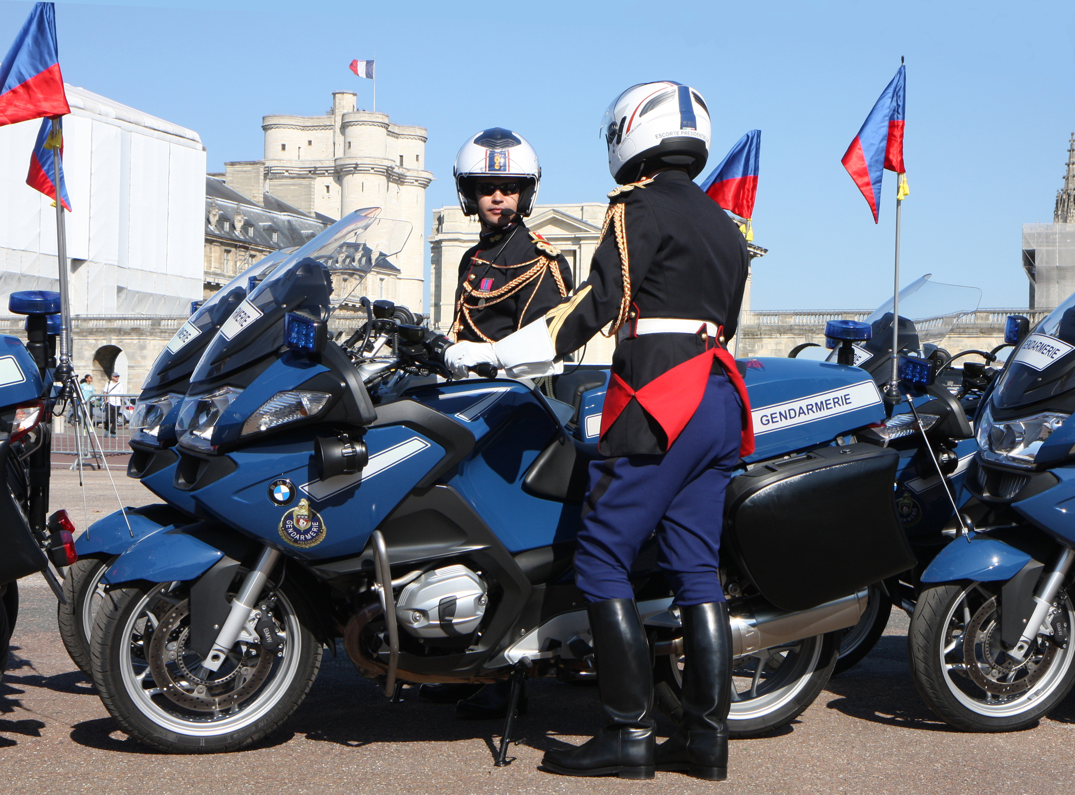 Gendarmes of the French republican guard presidential escort - Vincennes, 27 september 2015